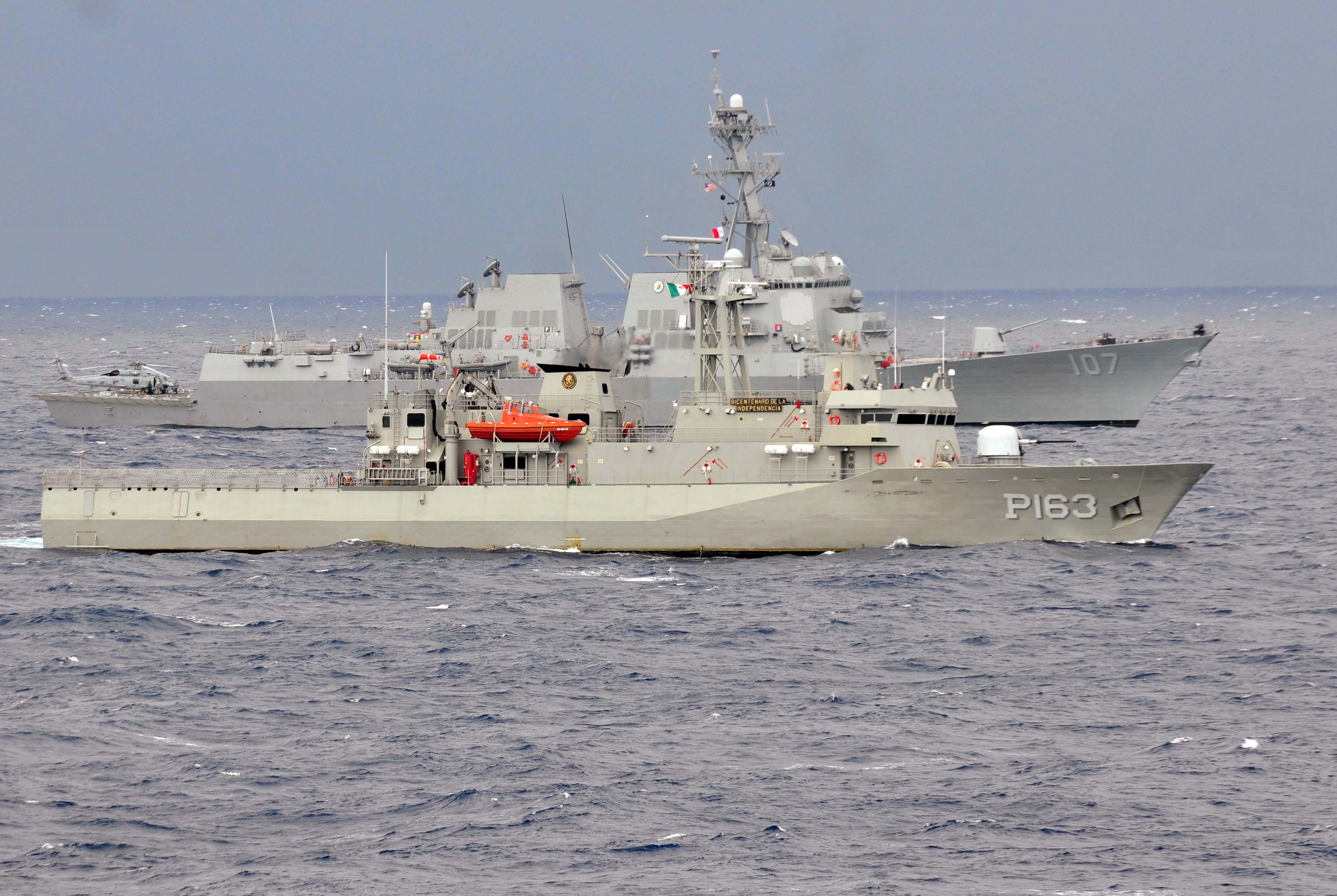 CARIBBEAN SEA (Sept. 21, 2012) The Mexican navy patrol ship ARM Independencia (PO-163) underway with the Arleigh Burke-class guided-missile destroyer USS Gravely (DDG 107) during a drone exercise for UNITAS Atlantic 2012. UNITAS Atlantic 2012 is an annual naval exercise hosted by the U.S. 4th Fleet and consists of naval forces from 13 different partner nations. (U.S. Navy photo by Mass Communications Specialist 3rd Class Frank J. Pikul/Released) 120921-N-ZE938-058 Join the conversation navylive.dodlive.mil